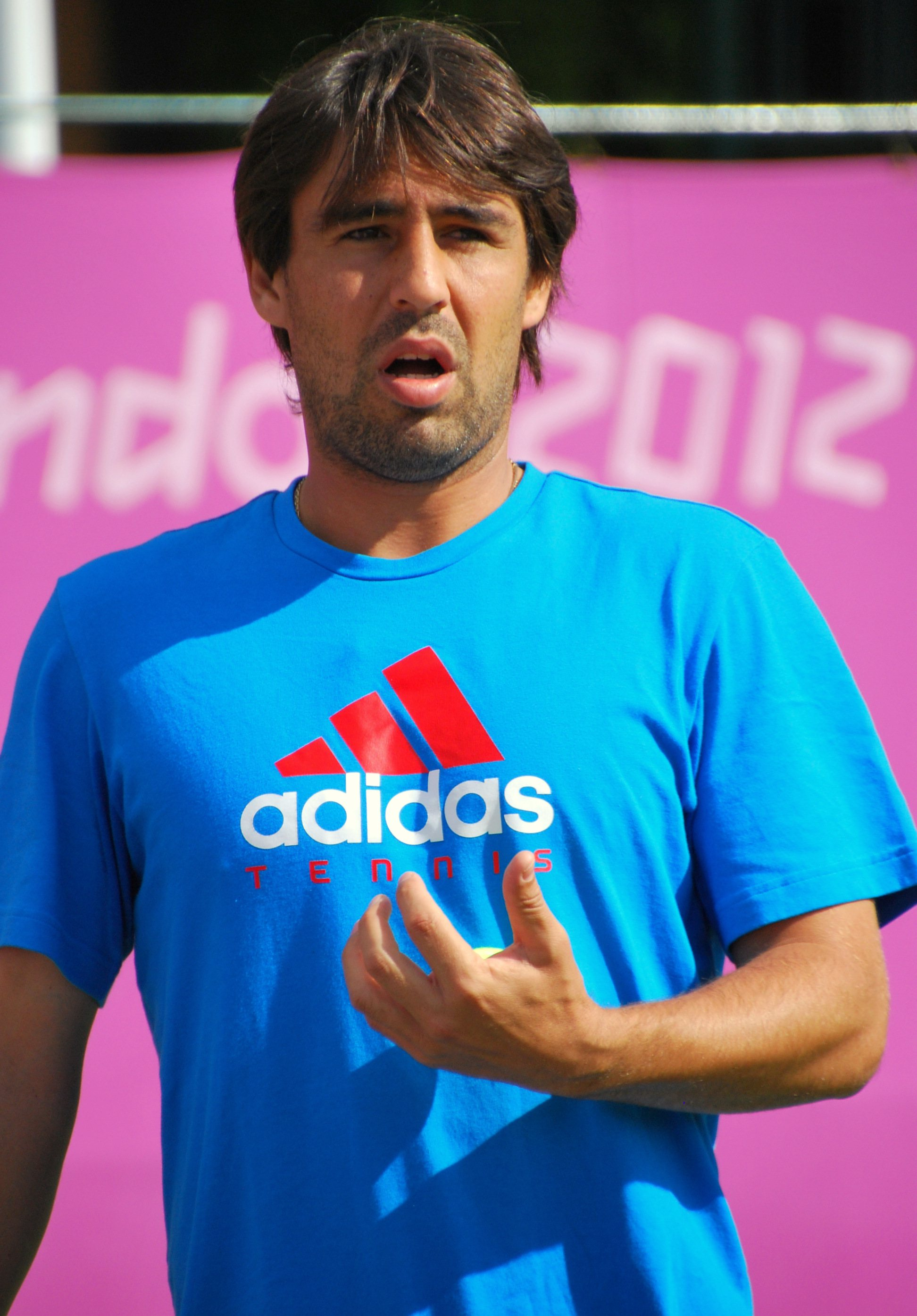 Marcos Baghdatis on the practice court.